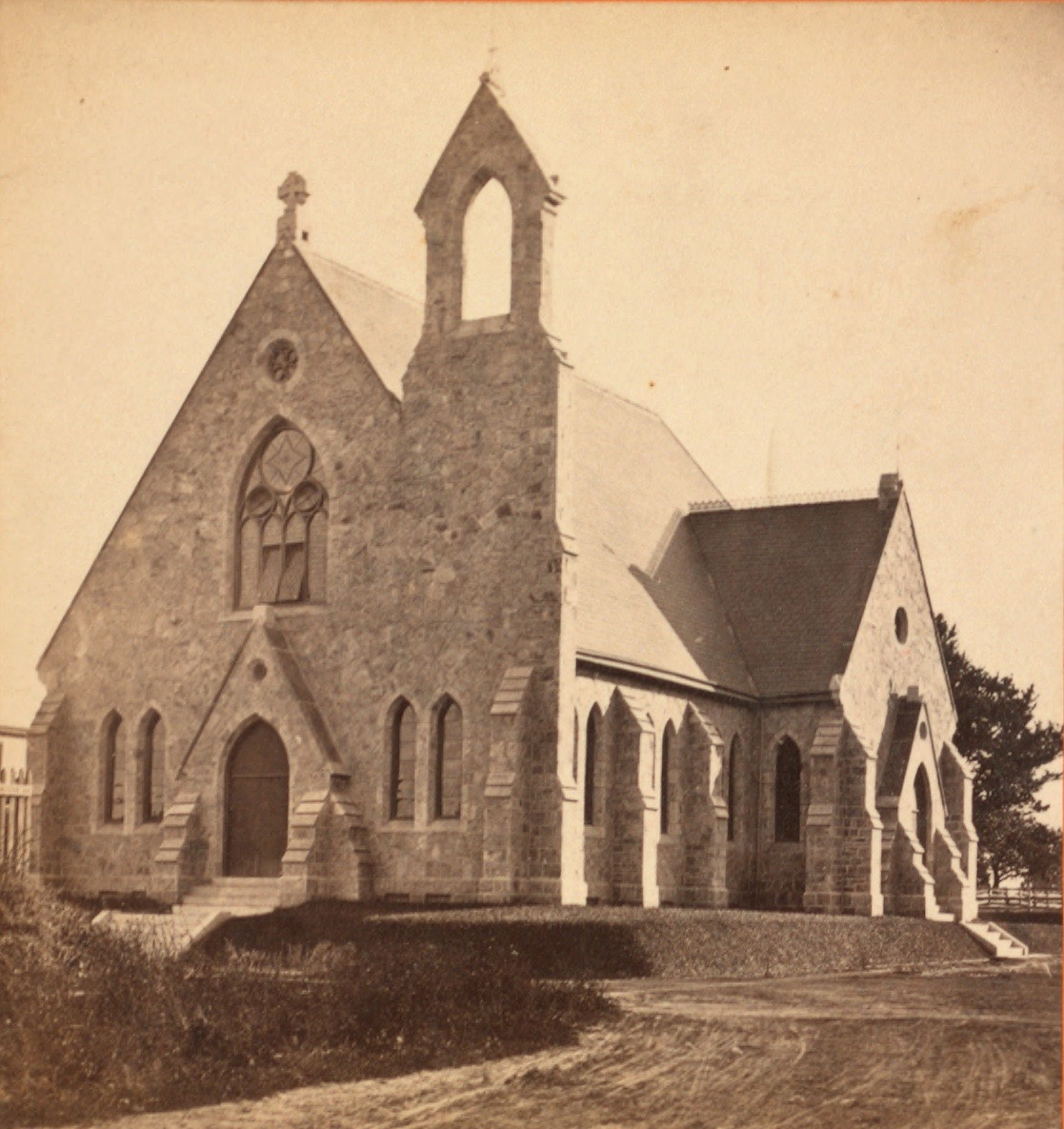 The left hand side of file File:Unitarian Church at Germantown, Philadelphia, by Newell, R., d. 1897.png, a stereoscopic slide. The photo can be dated to between 1868 (construction date) and 1880 (when a rectory was constructed behind the church). Church was demolished in 1928. Was located at the corner of Greene and Chelten, in Germantown, Philadelphia, Pennsylvania